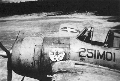 A Grumman F3F-3P Wildcat reconnaissance plane of U.S. Marine Corps observation squadron VMO-251 at Espiritu Santo in late 1942. Although used for reconnaissance at Guadalcanal, none of the F4F-3Ps saw combat. However, many of VMO-251´s pilots helped to fill the ranks of the understrength fighter squadrons on Guadalcanal until the squadron became fully operational. Note the squadron insignia.